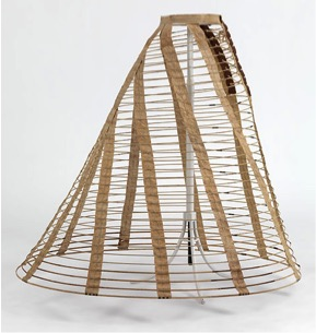 Emphasis has moved towards the back.